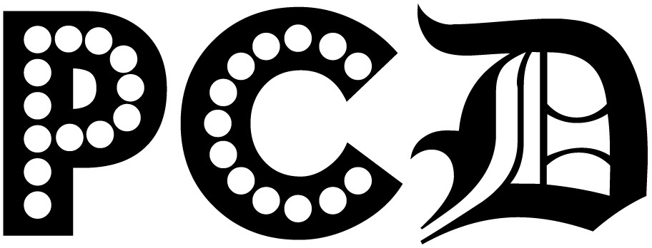 Another short version from Pussycat Dolls logo